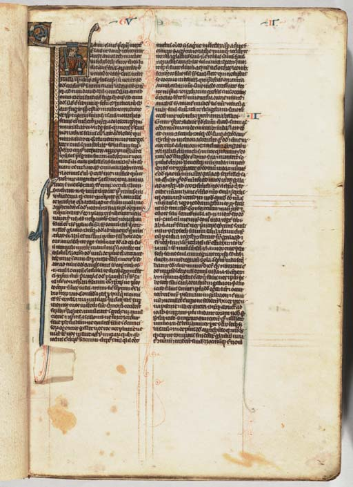 MS Lewis E 029, Free Library of Philadelphia. Folio:f. 1r , William de Brailes - Artist, Bible 1225 - 1250, Oxford, England, Gothic bookhand, Latin, dimensions: 113 mm x 182 mm